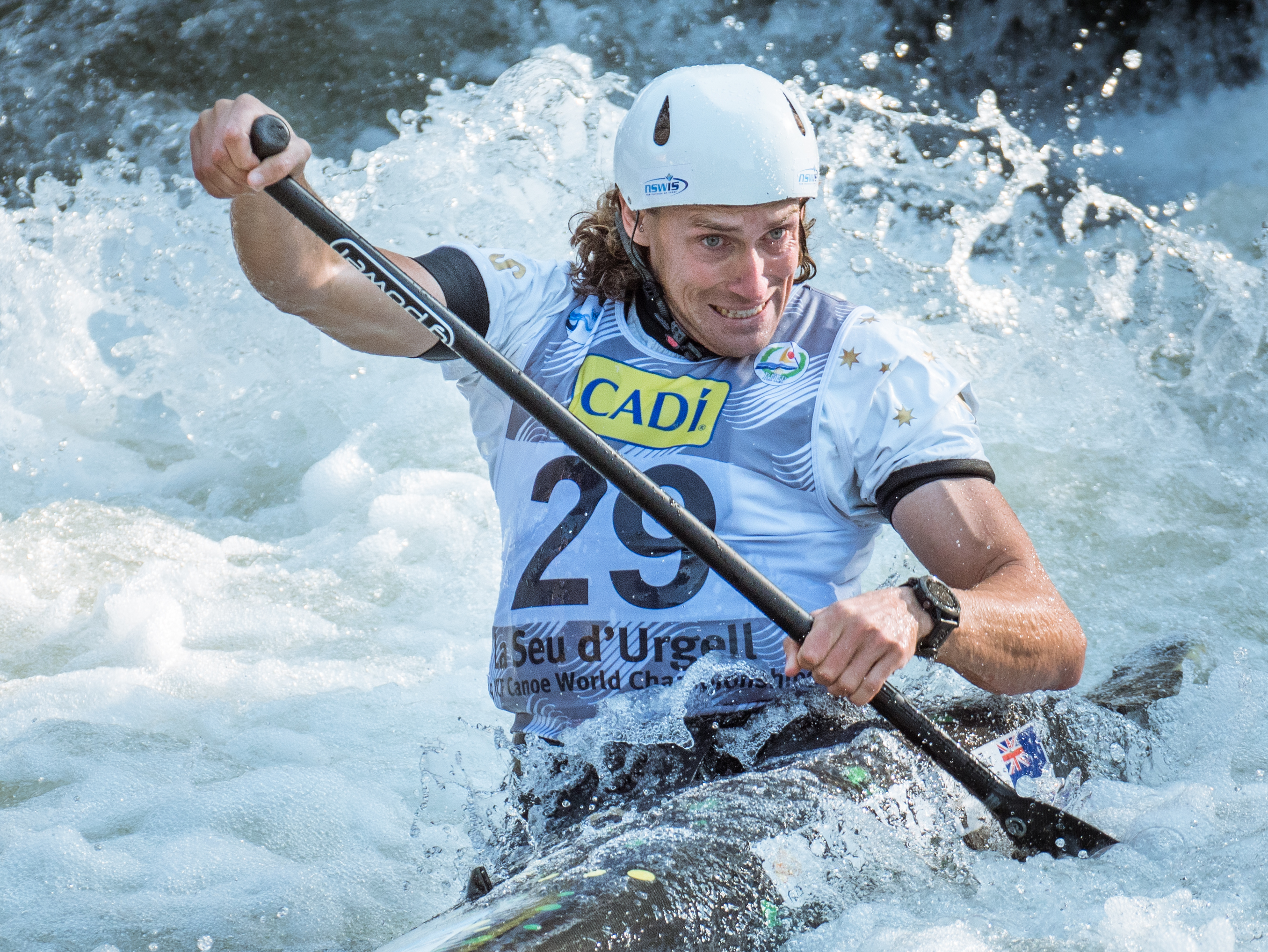 Ian Borrows during the 2019 Canoe Slalom World Championships in La Seu d'Urgell, Spain.